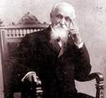 José_Clemete_Vivanco_Hernández